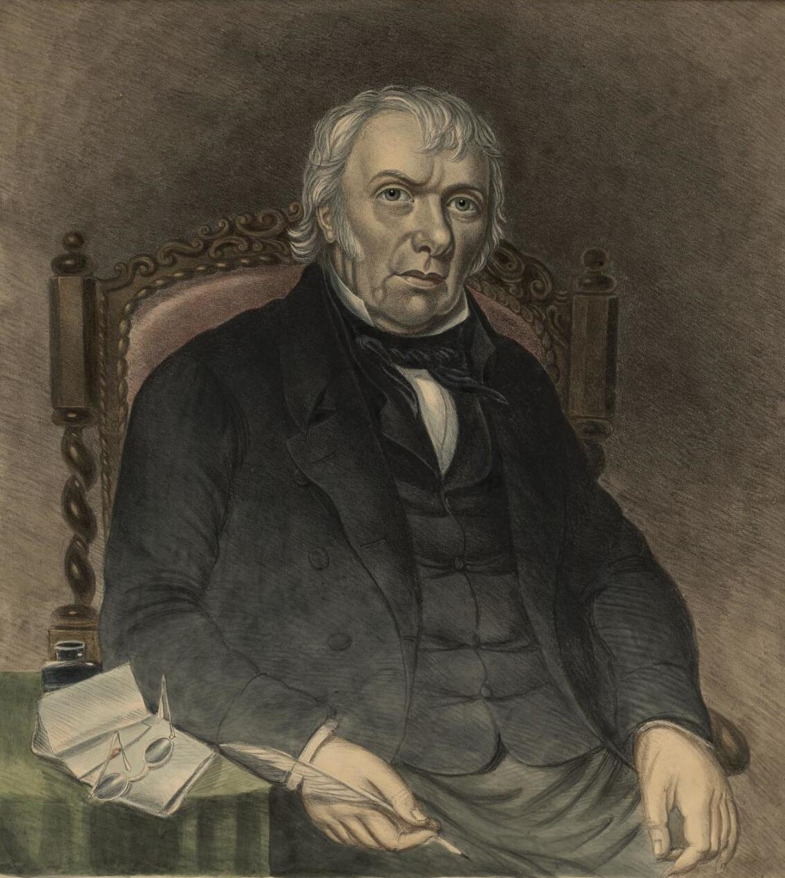 A portrait from the Welsh Portrait Collection at the National Library of Wales. Depicted person: Robert Williams – Welsh bard, born 1766